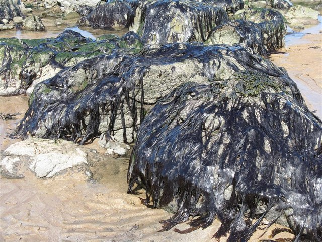 Porphyra umbilicaria [laver bread] It looks as if the rocks have been draped with abandoned black poly bags, but it is a red alga, commonly known as laver bread. Purplish brown when fresh it dries to be quite black and shiny in the sunlight.